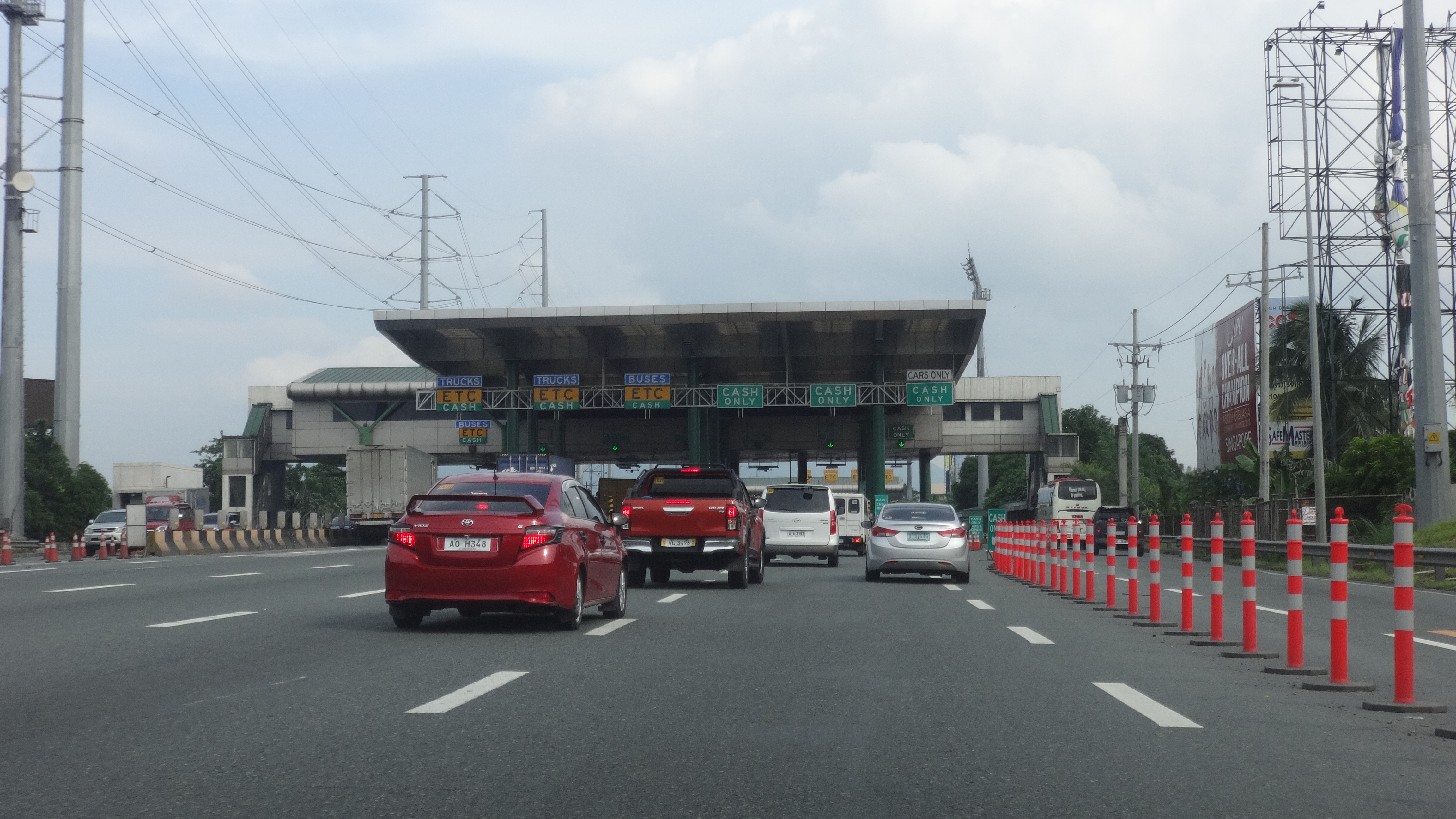 South Luzon Expressway (SLEX) Calamba Toll Plaza in Calamba City, Laguna